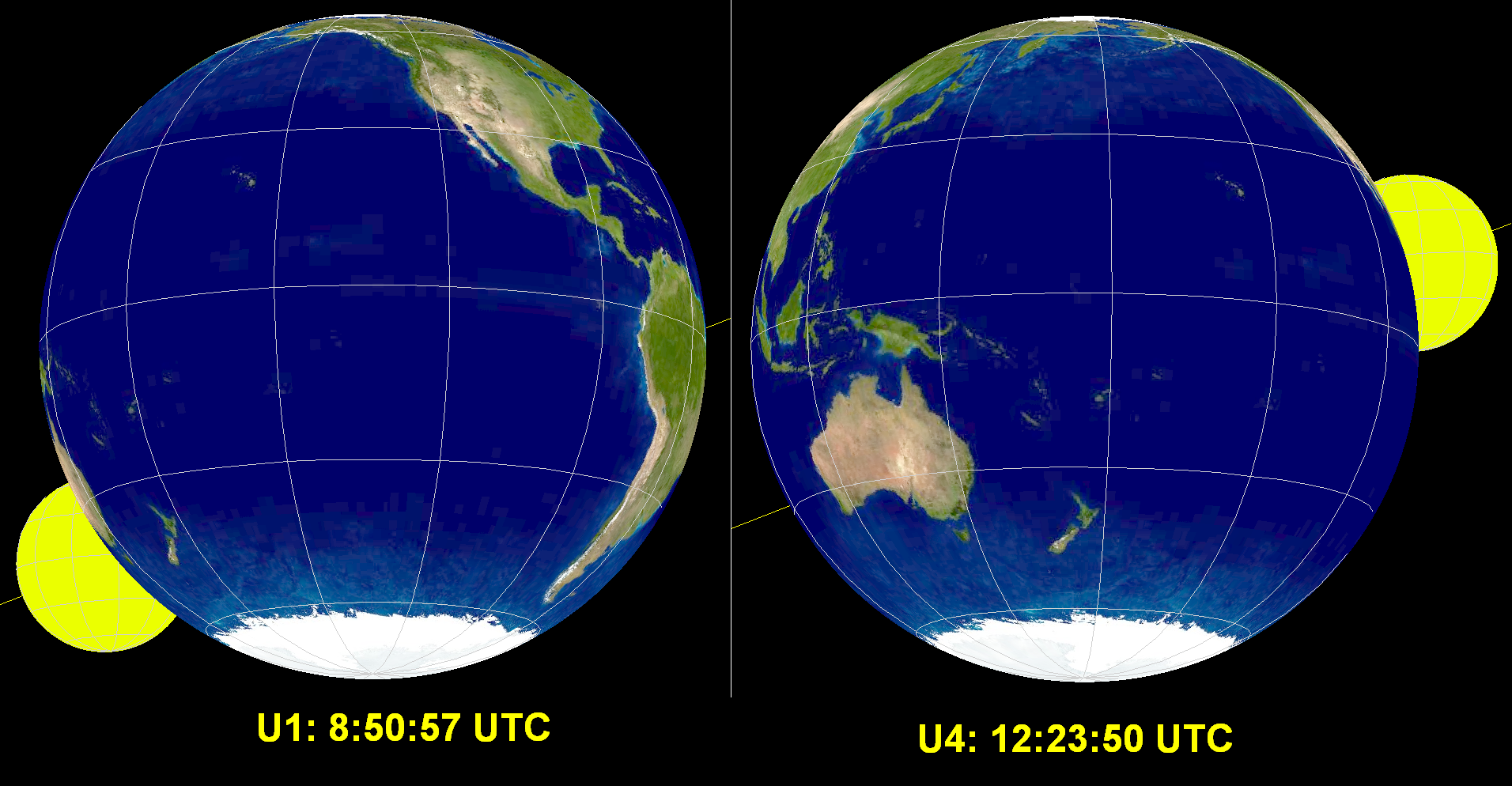 28_August_2007_lunar_eclipse view of earth The orientation of the earth as viewed from the center of the moon during three points of the lunar eclipse, U1, greatest eclipse, and U4. (The sun's disk is half visible on the first and last views)